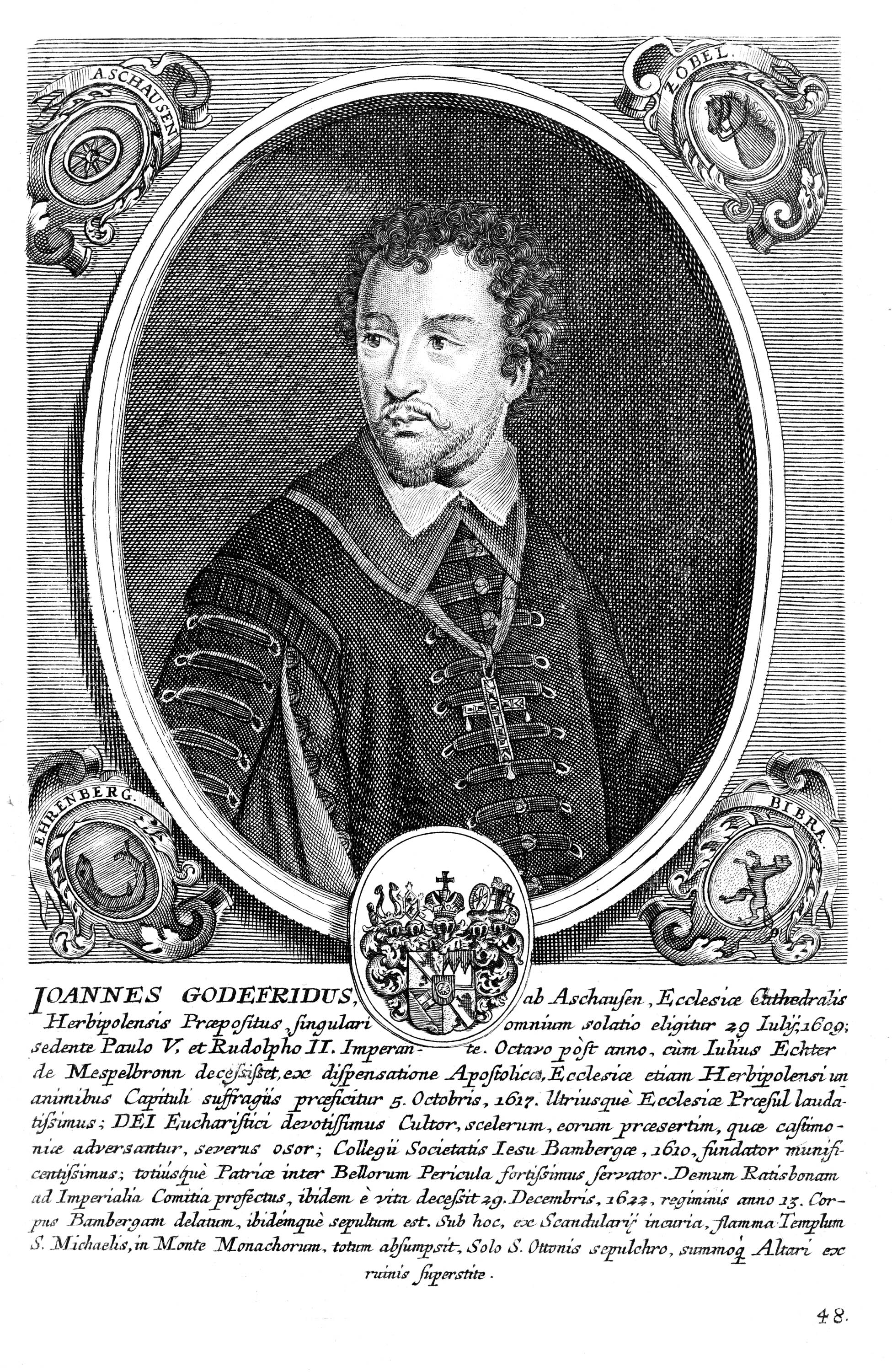 print of Joannes Godefridus von Aschausen, Bishop of Wuerzburg and Bamberg